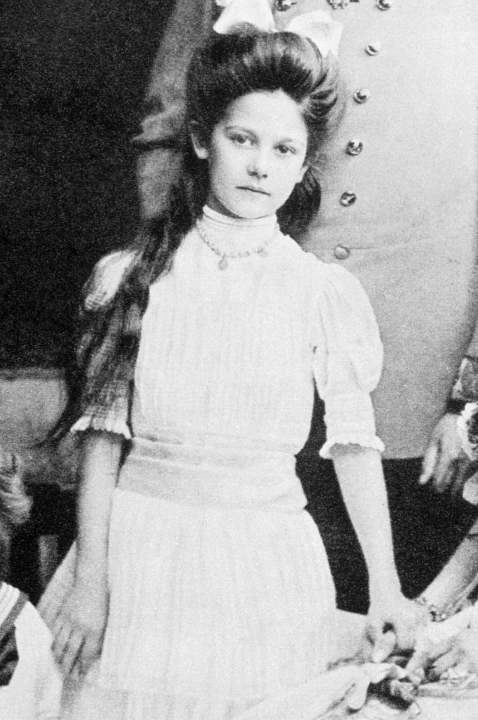 Princess Sophie of Hohenberg (image has been altered by User:Sardaka for cropping and darkening, 2015-6-12)